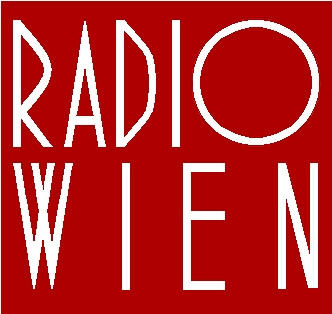 Signet of Radio Vienna 1935